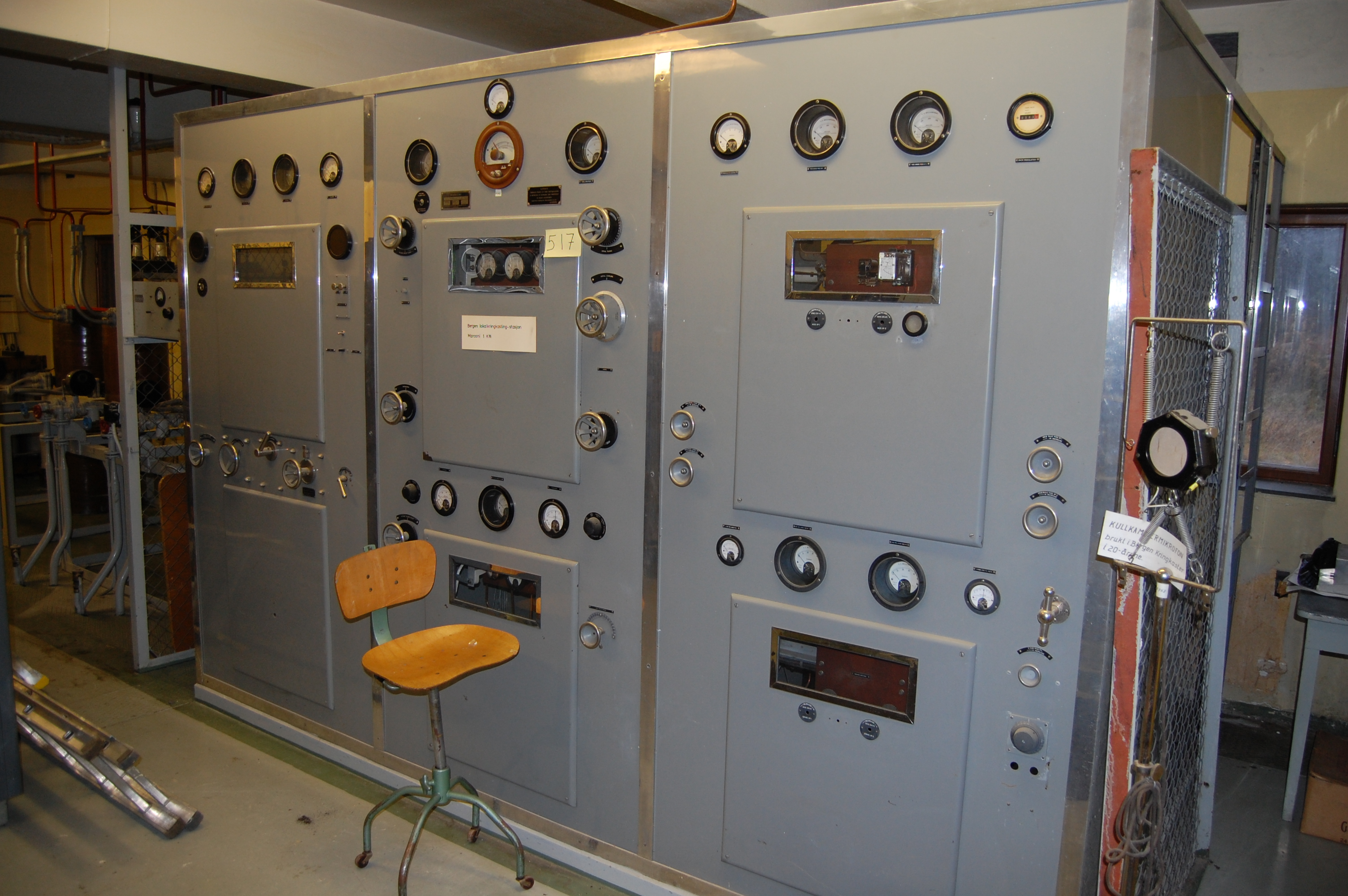 Marconi transmitter at Bergen kringkaster, Askøy, Norway.